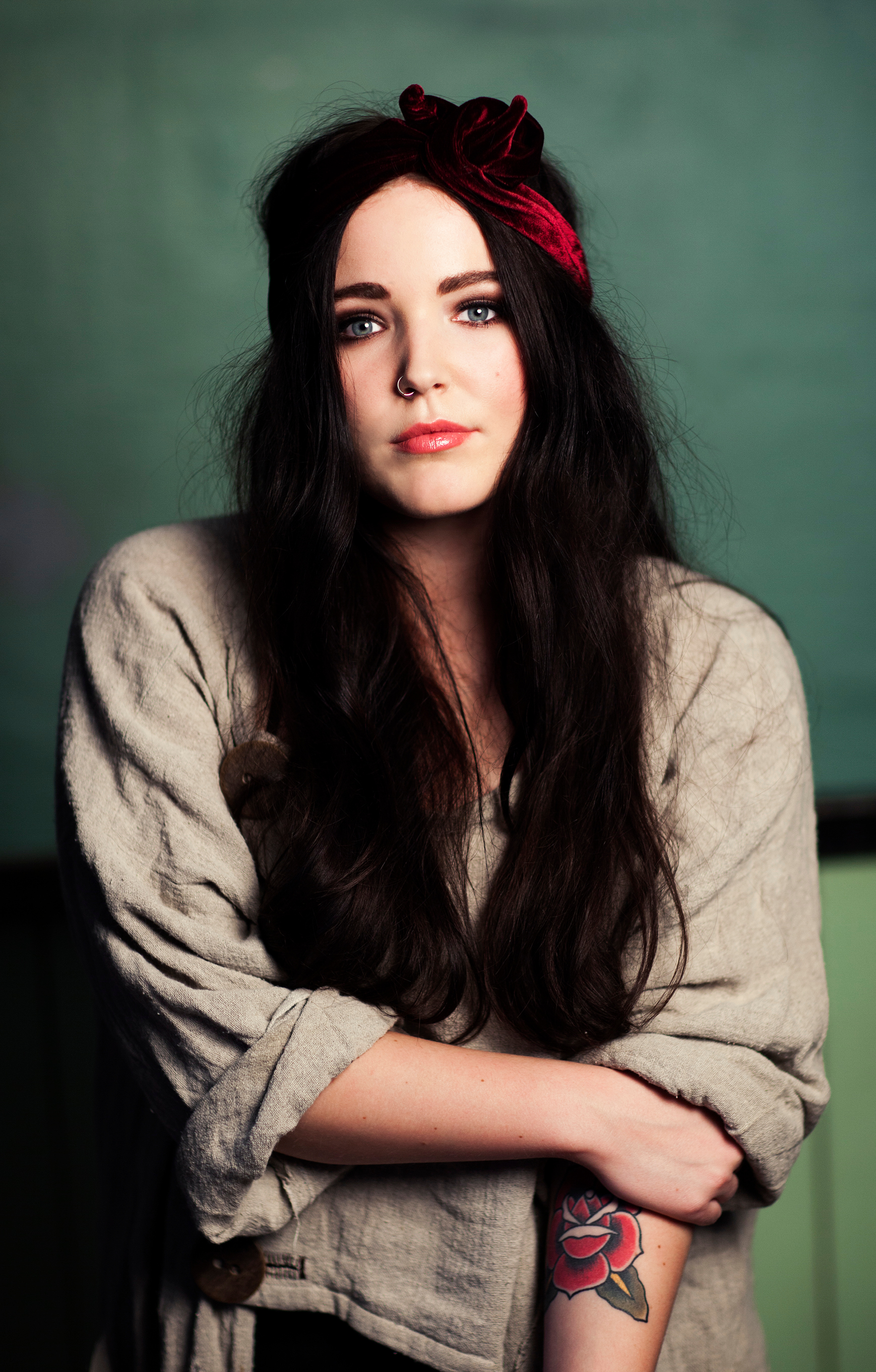 Swedish singer Miriam Bryant